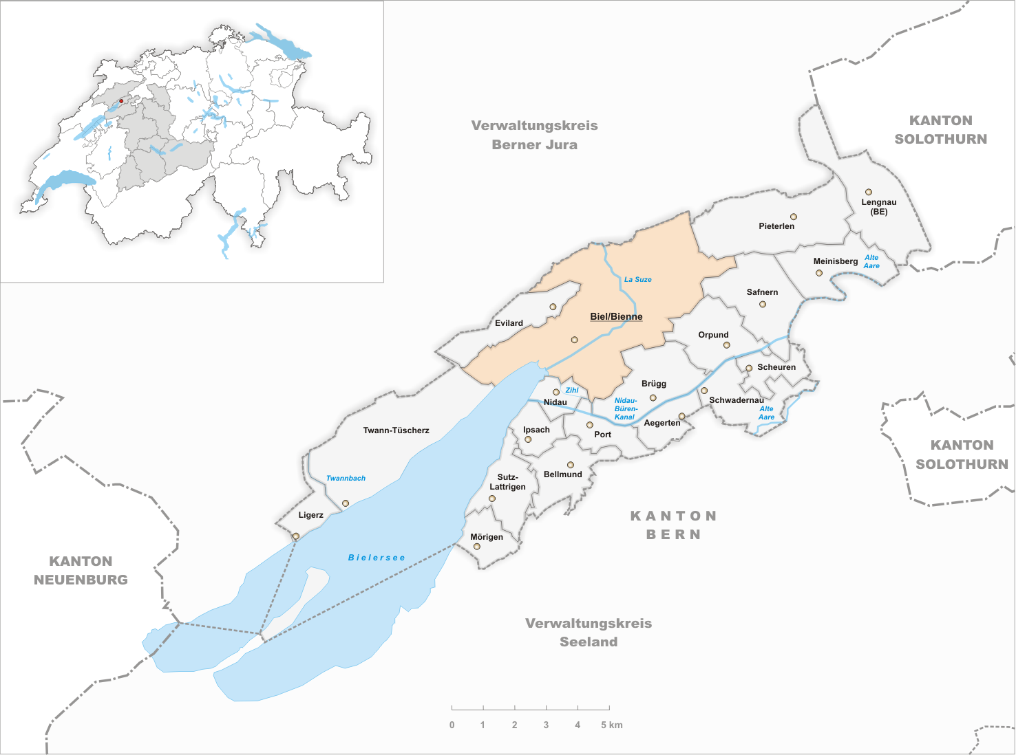 Municipality Biel/Bienne